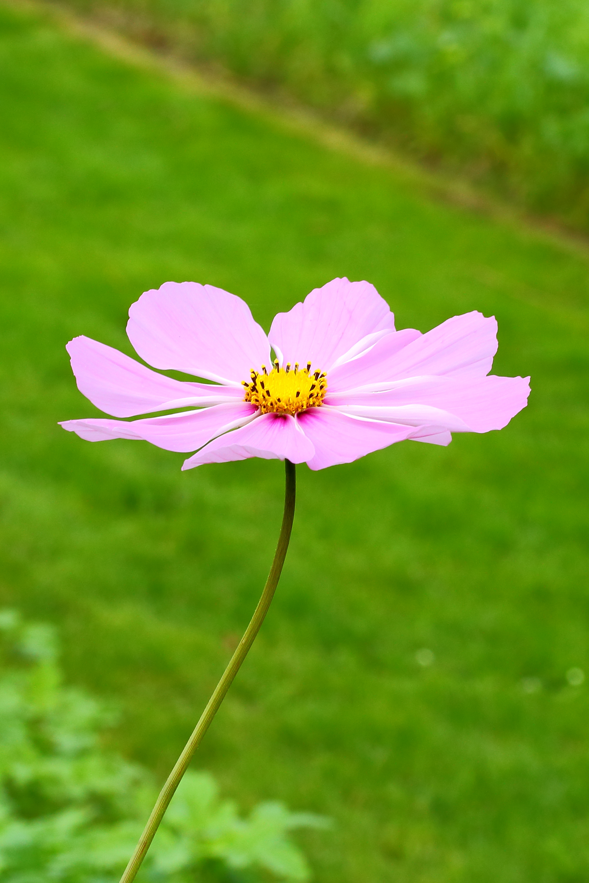 Cosmos (Cosmos bipinnatus) is an annual plant of the sunflower family (Asteraceae).